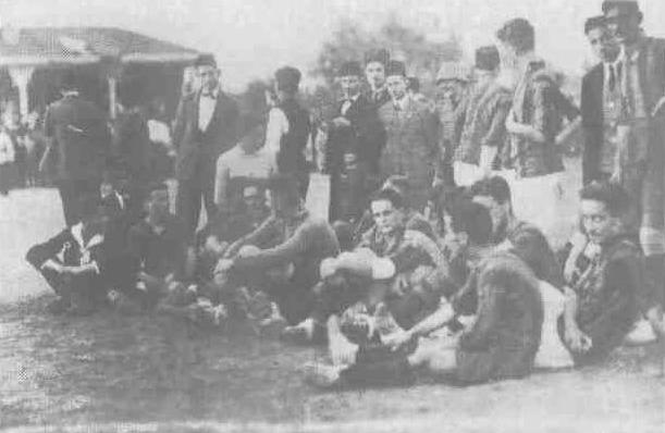 Halftime of the match between Fenerbahçe and Altınordu İdman Yurdu in 3 November 1922.